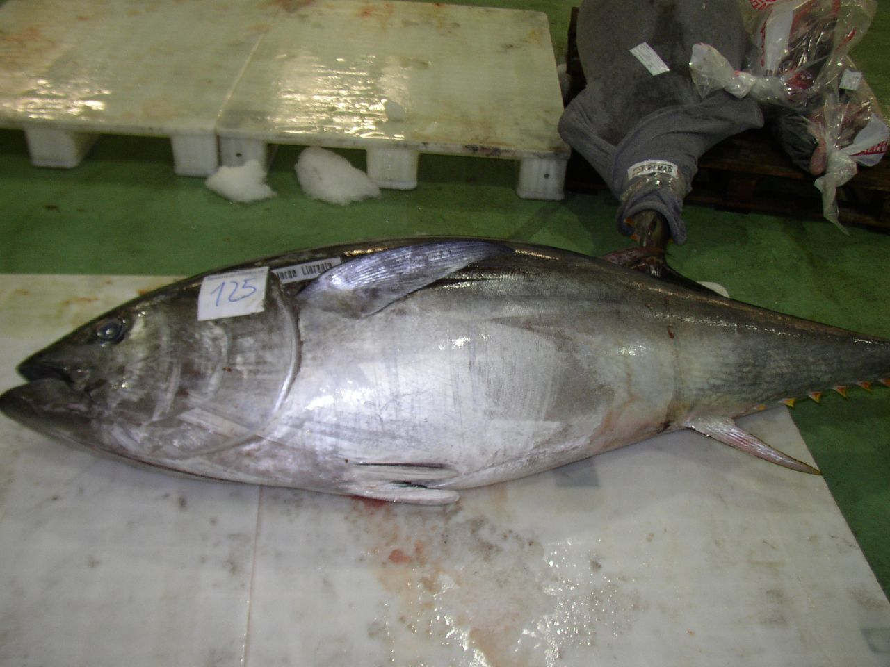 Atún (Thunnus thynnus) en Vigo. Atlantic Bluefin Tuna (Thunnus thynnus).